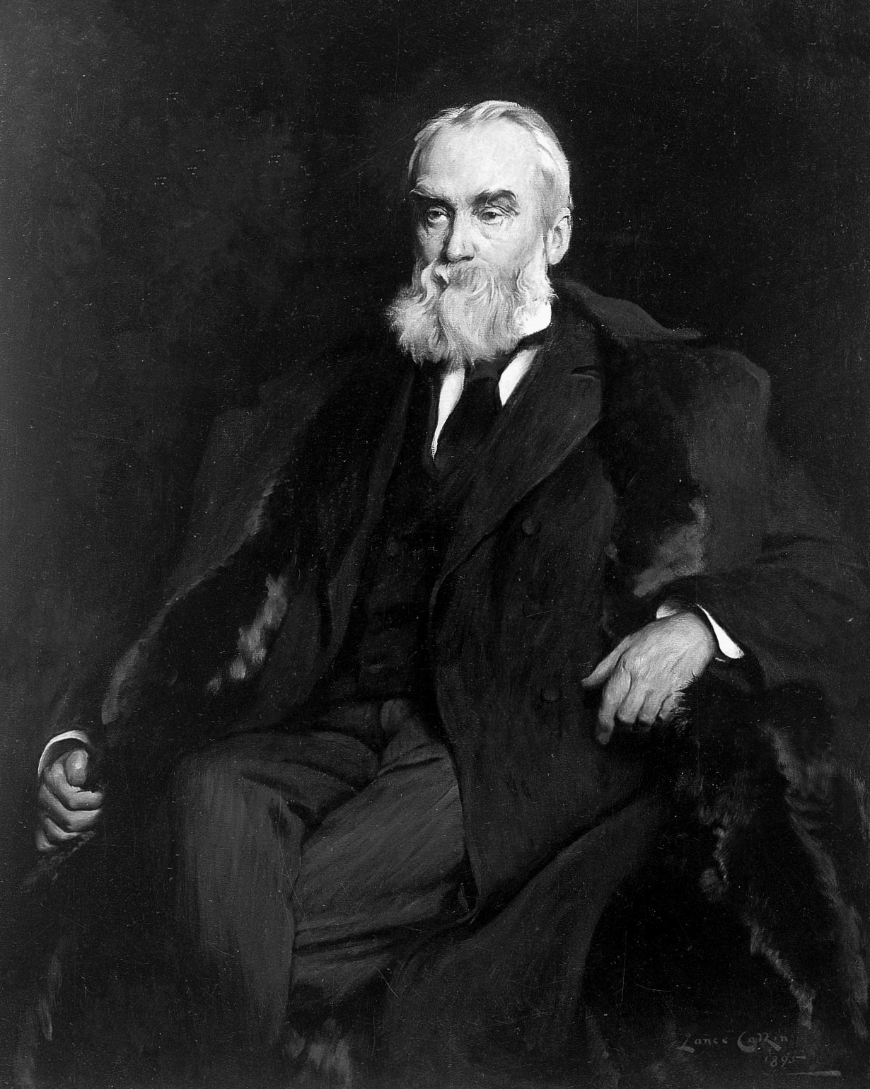 Jackson, John Hughlings, 1835-1911